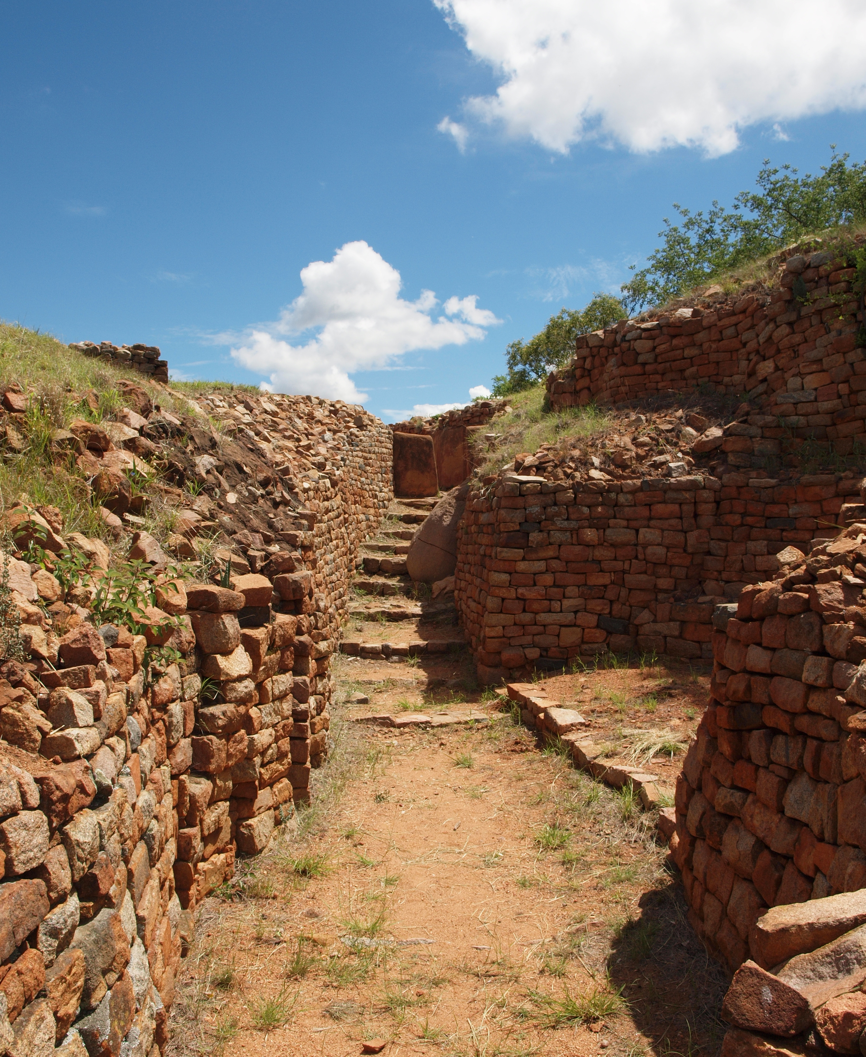 UNECSO Heritage - Khami ruins near Bulawayo, Zimbabwe